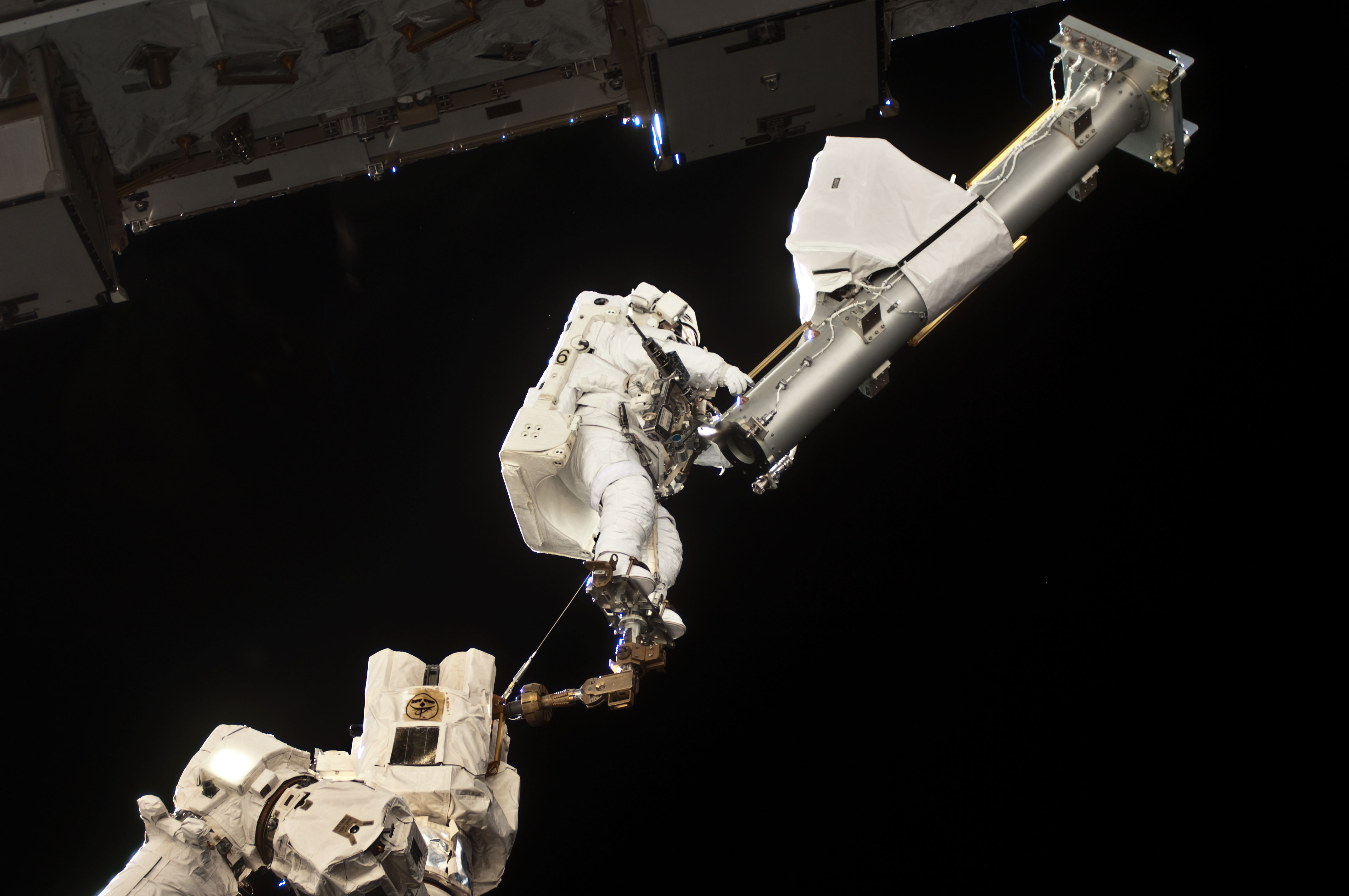 Anchored to a Canadarm2 mobile foot restraint, NASA astronaut Garrett Reisman, STS-132 mission specialist, participates in the mission's first session of extravehicular activity (EVA) as construction and maintenance continue on the International Space Station. During the seven-hour, 25-minute spacewalk, Reisman and NASA astronaut Steve Bowen (out of frame), mission specialist, loosened bolts holding six replacement batteries, installed a second antenna for high-speed Ku-band transmissions and adding a spare parts platform to Dextre, a two-armed extension for the station's robotic arm.